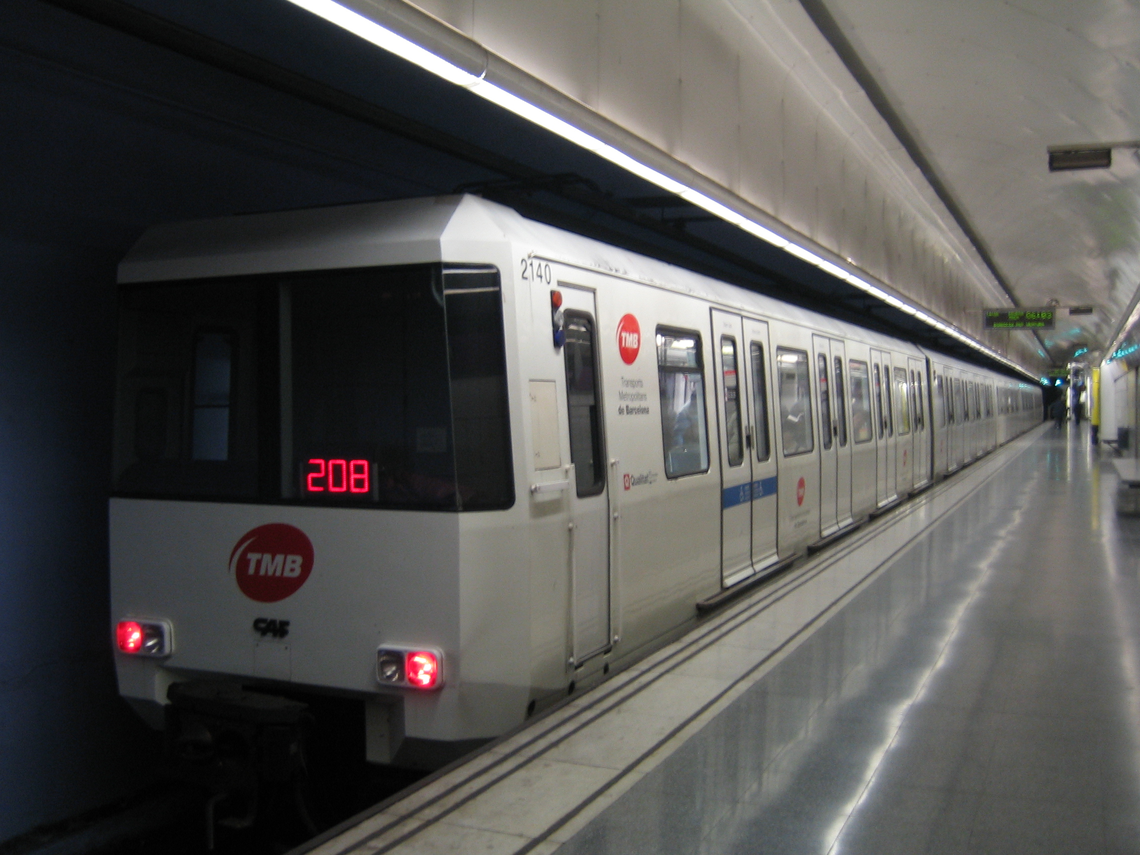 Train type 2000 of Barcelona's metro at Universitat station